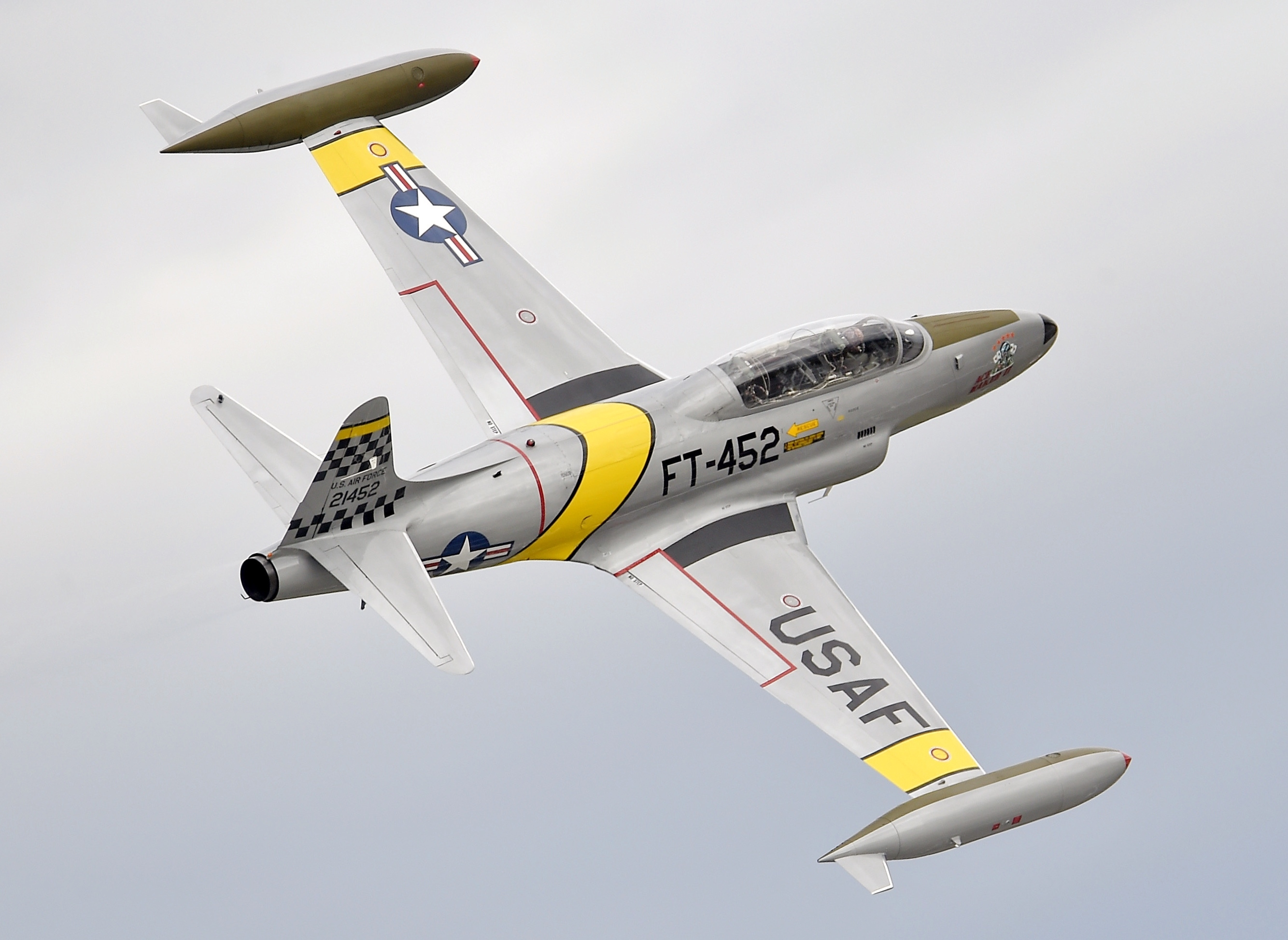 Gregory “Wired” Coyler pilots his Lockheed T-33 aircraft during the Arctic Thunder Special Needs and Family Day at Joint Base Elmendorf-Richardson, Alaska on July 29, 2016. The biennial event is historically the largest multi-day event in the state and one of the premier aerial demonstrations in the world. Arctic Thunder will open its doors to the public, featuring more than 40 key performers and ground acts, July 30 and 31. (U.S. Air Force photo/Alejandro Pena) Unit: Joint Base Elmendorf-Richardson Public Affairs